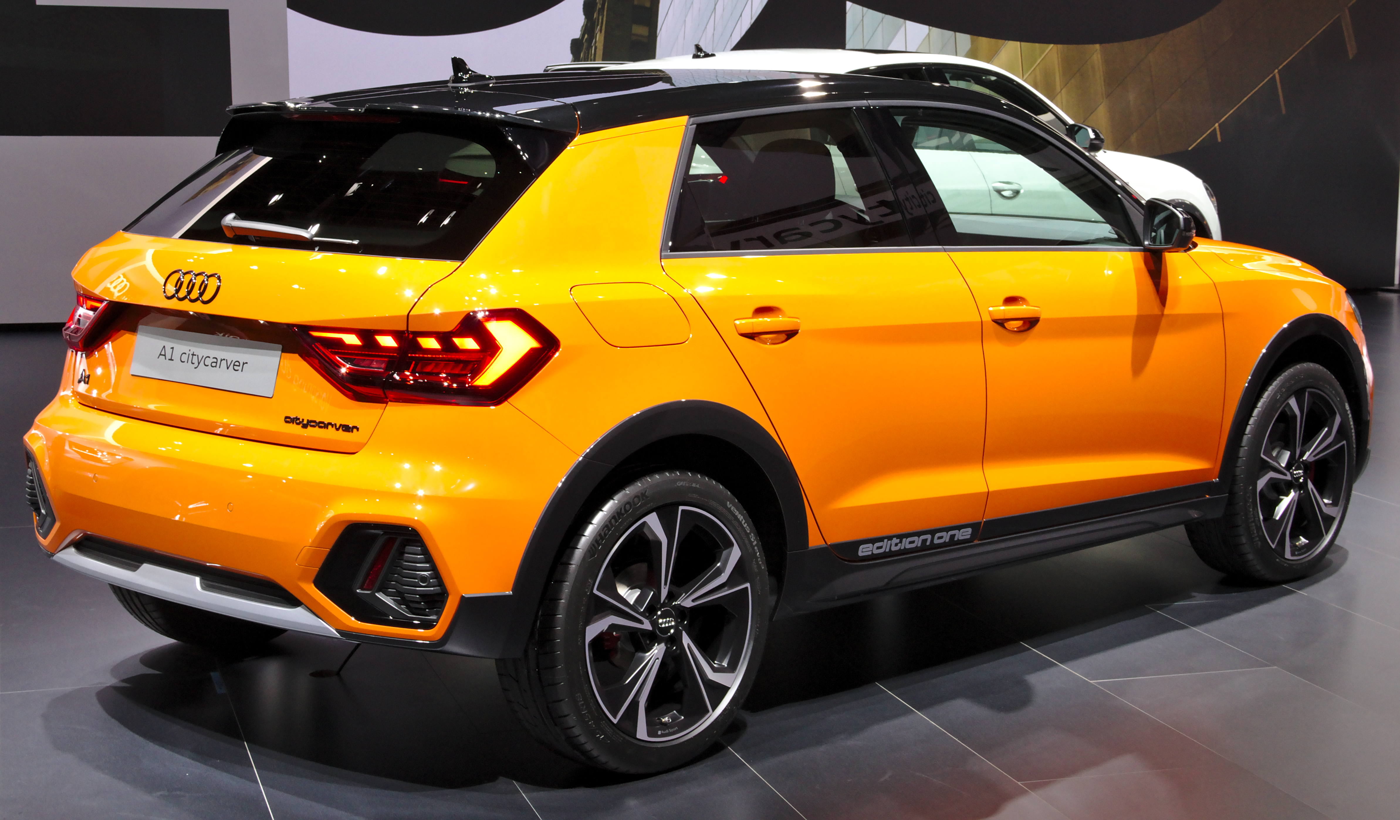 Audi_A1_citycarver at IAA 2019